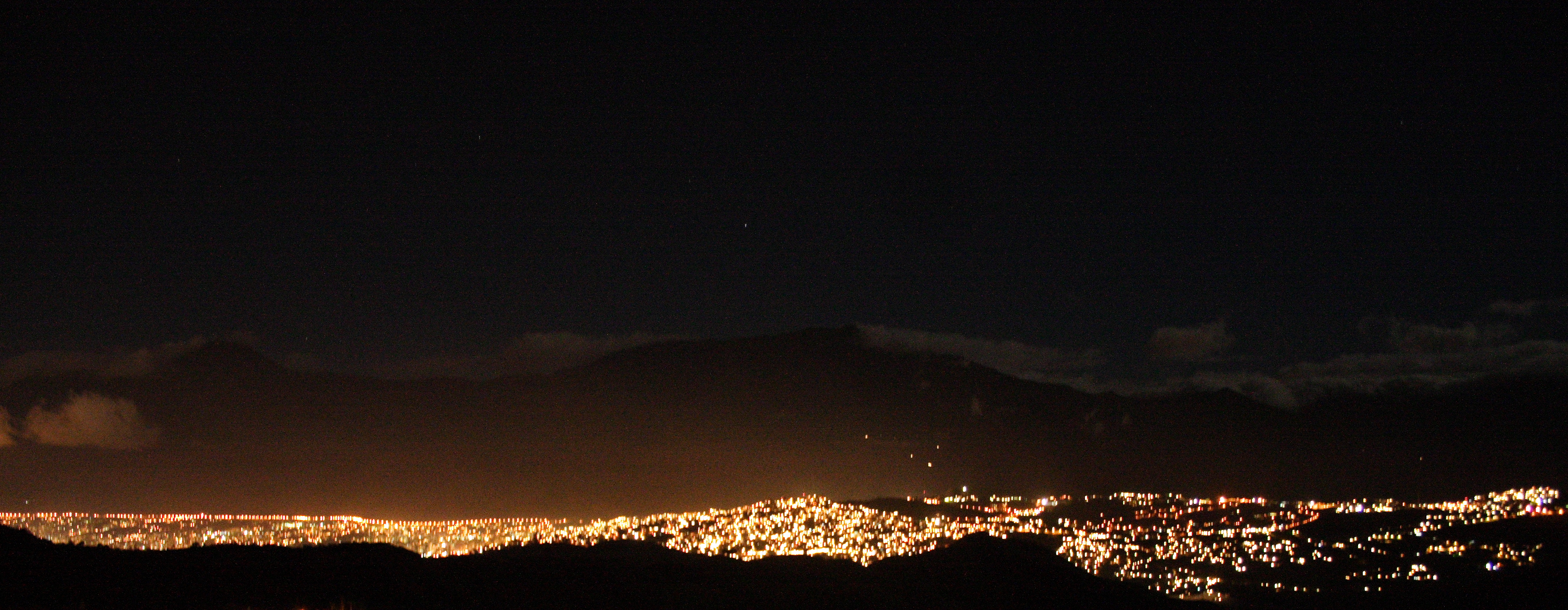 Caracas at Night